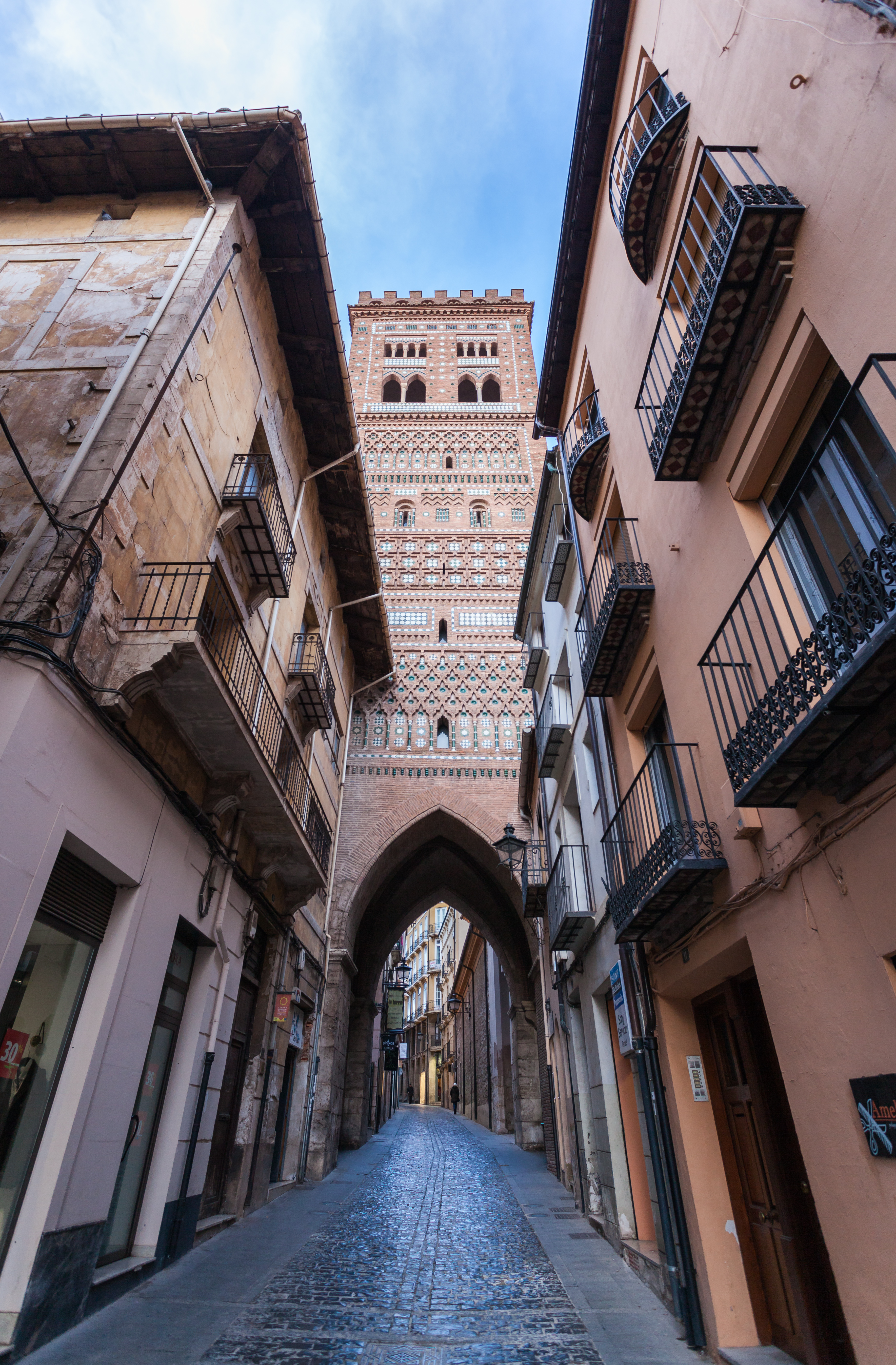 Tower of the church of El Salvador, Teruel, Teruel, España